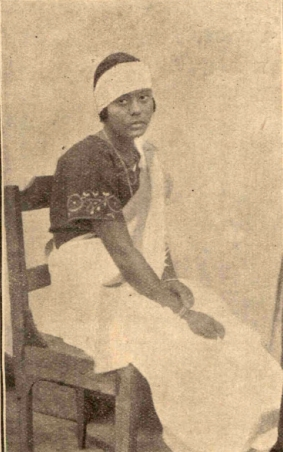 The picture is a scanned image of Anindyabala Nandi, published in Bengali weekly Prabasi in 1930. During the 1930 Dhaka riots, when Kayettuli was attacked, she along with her sister Amiyabala (both minors) defended her house from the riotous mobs.